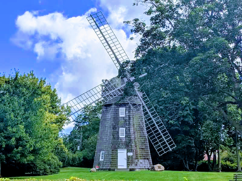 Beebe smock mill in Bridgehampton was built 1820 at Sag Harbor